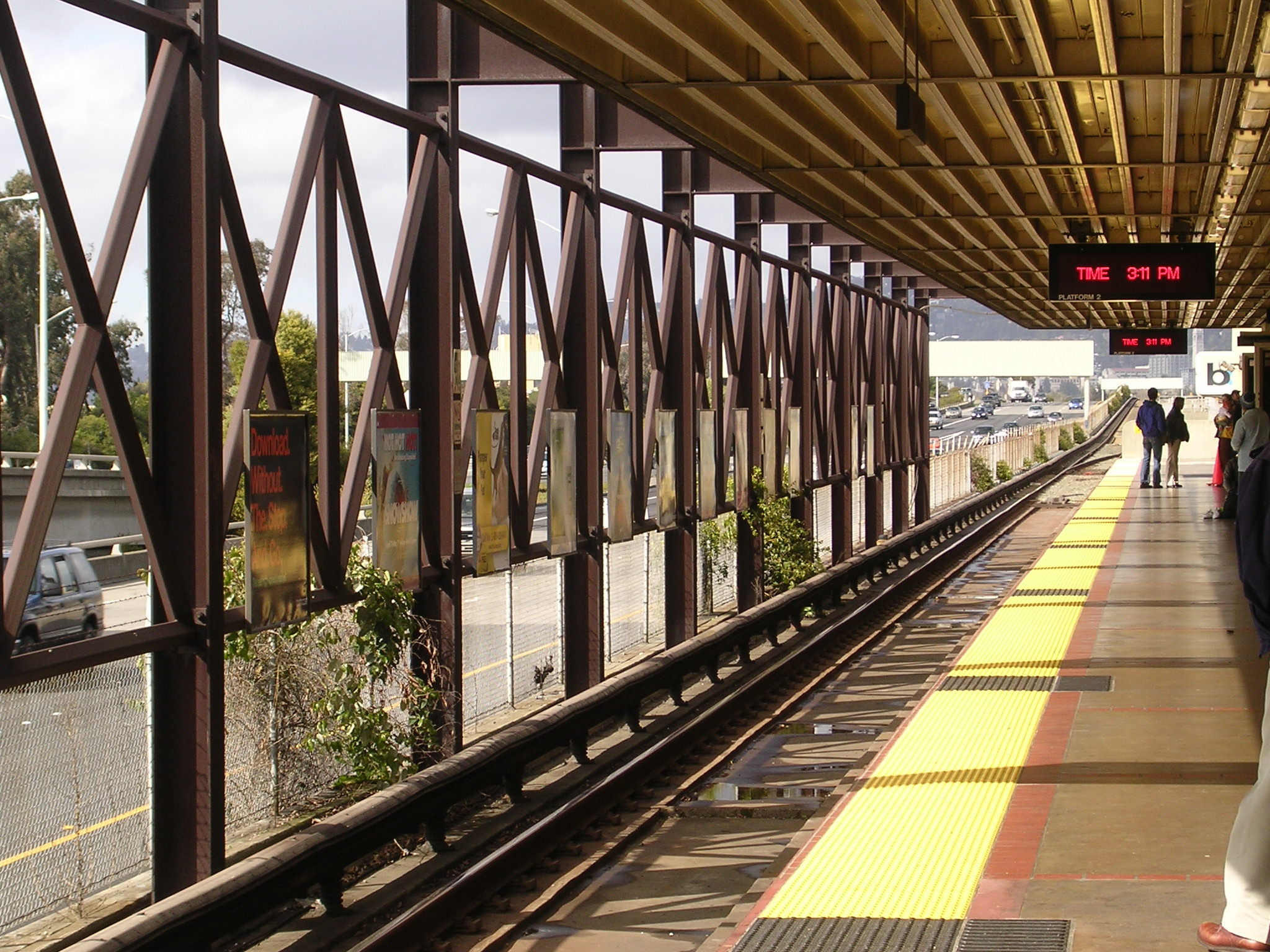 Randomly-shot picture taken 2006-03-25, aimed NE from Platform 2. Westbound SR-24 is seen in the background.